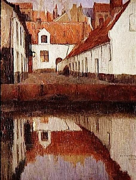 Small courtyard in Flanders by Albert Baertsoen